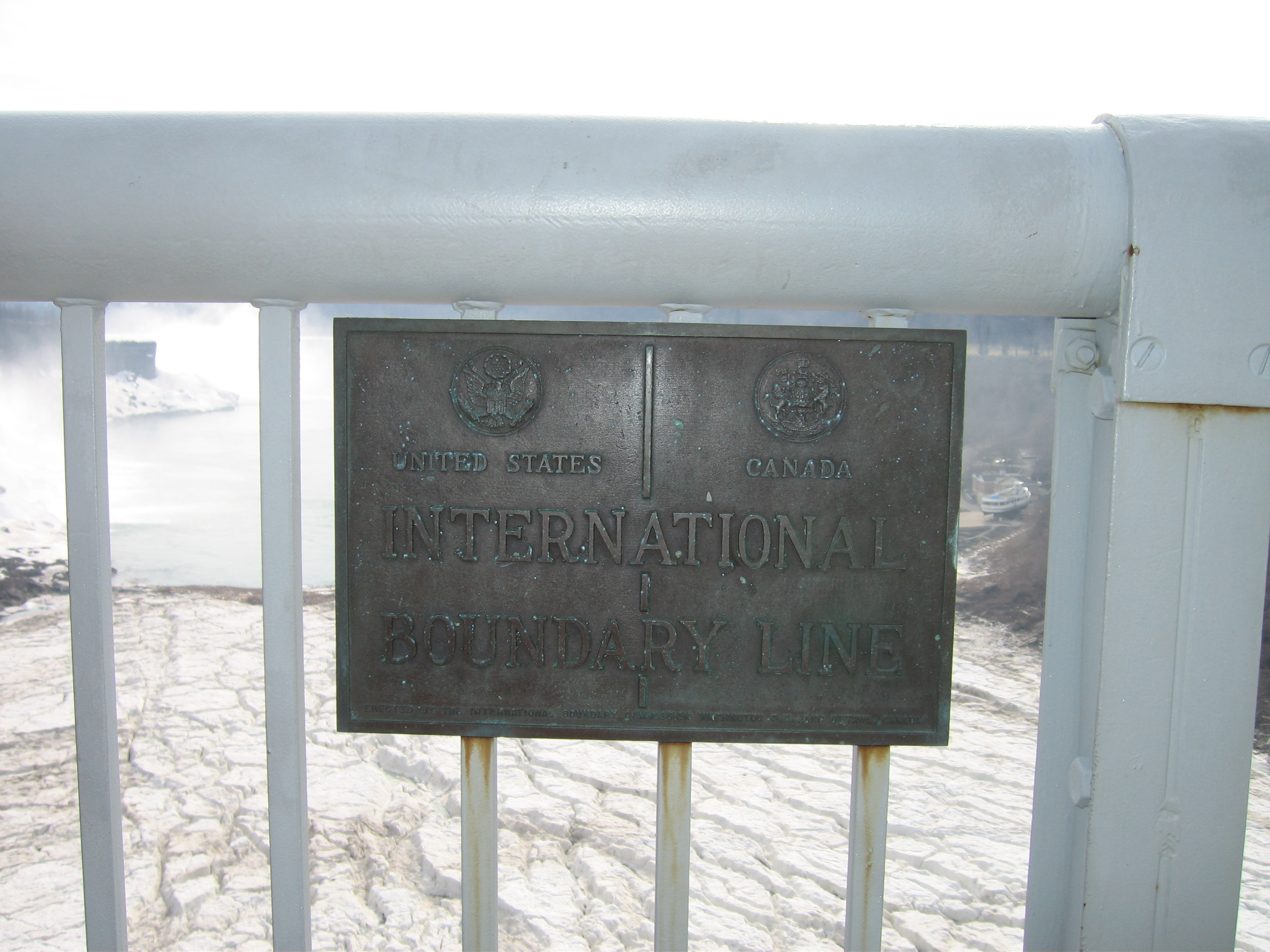 USA-Canada border sign at the Rainbow Bridge, Niagara Falls